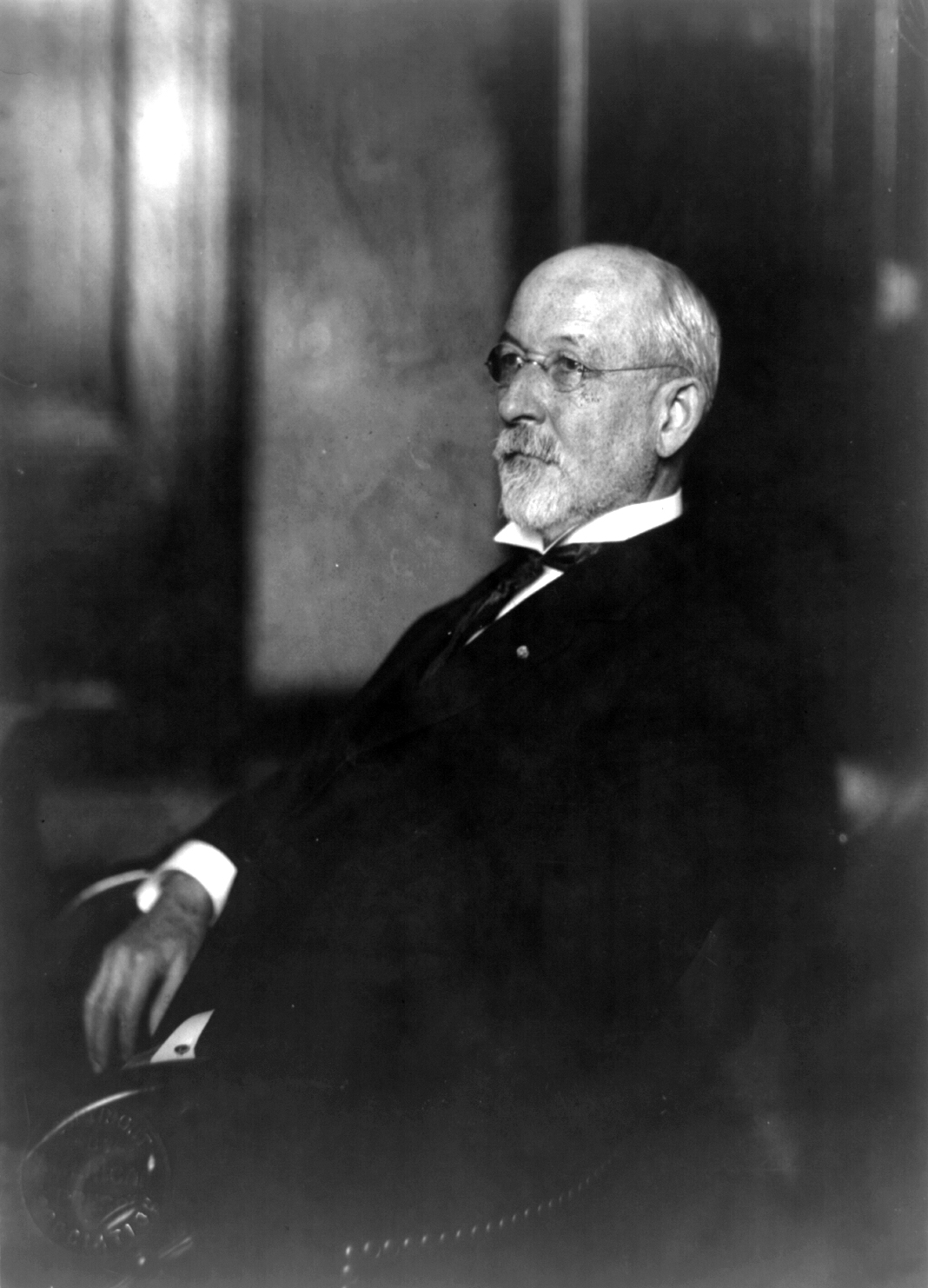 Caroll S. Page half-length portrait, seated, facing left